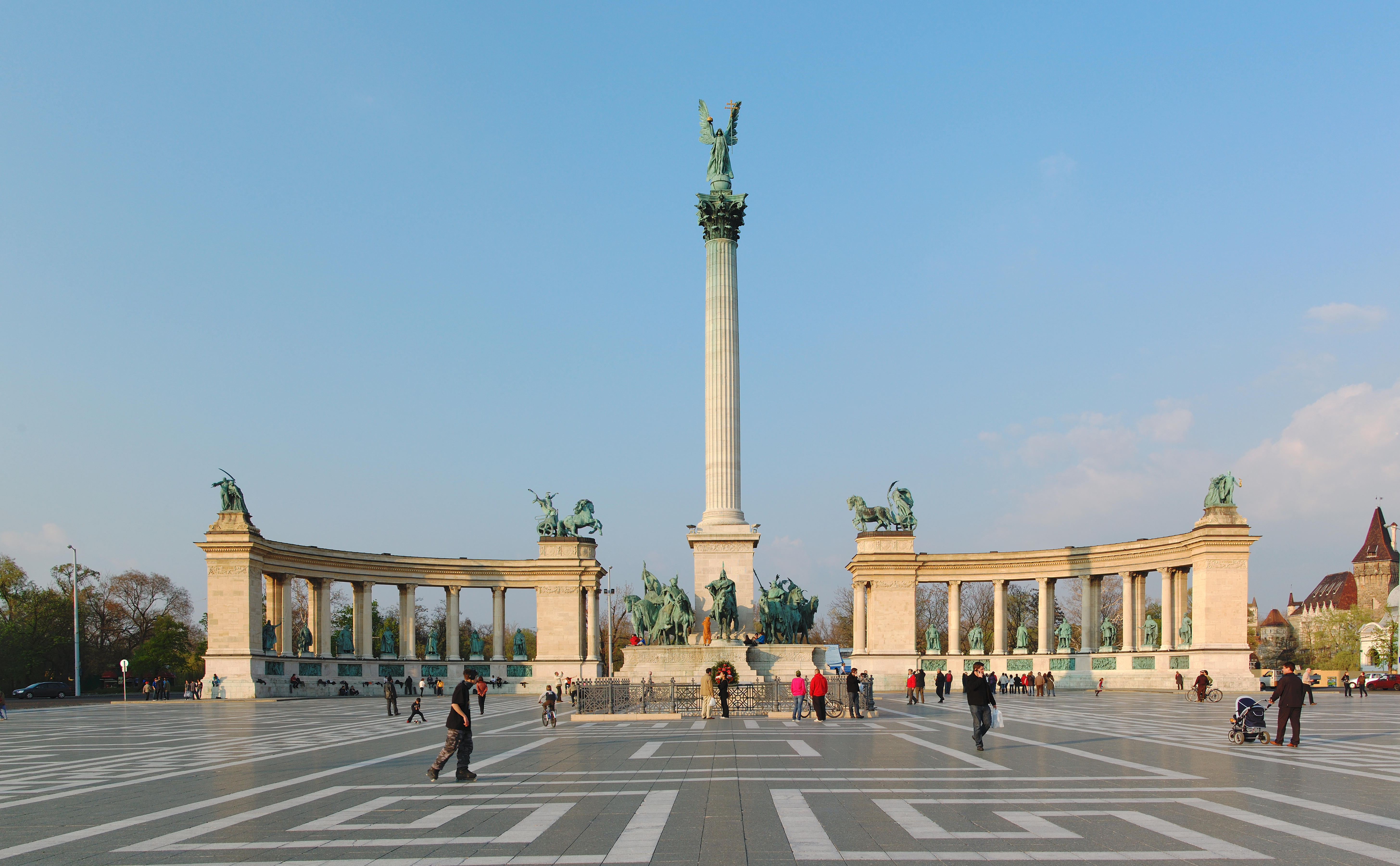 Heroes' Square in Budapest. This image was created with Hugin.